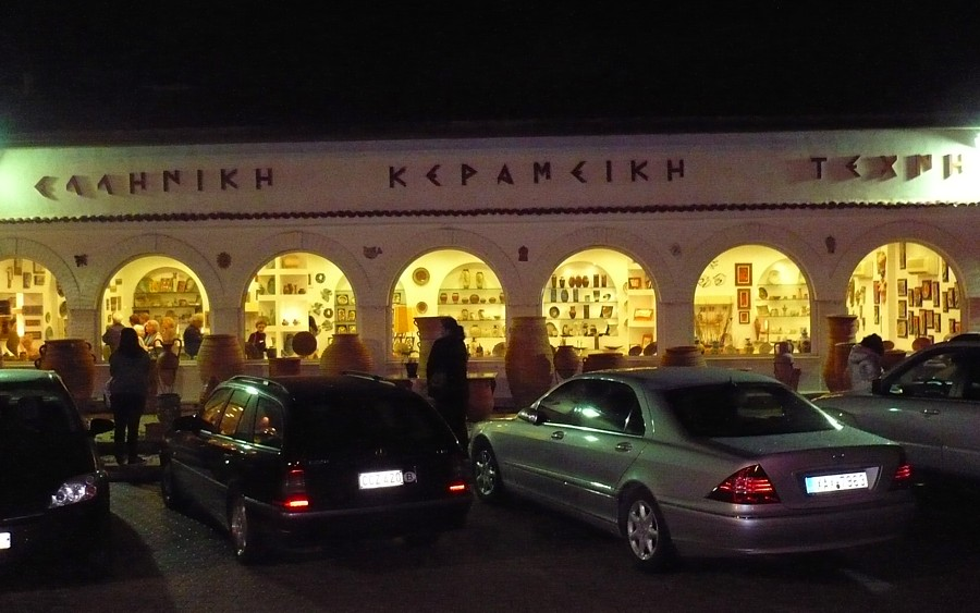 keramiki